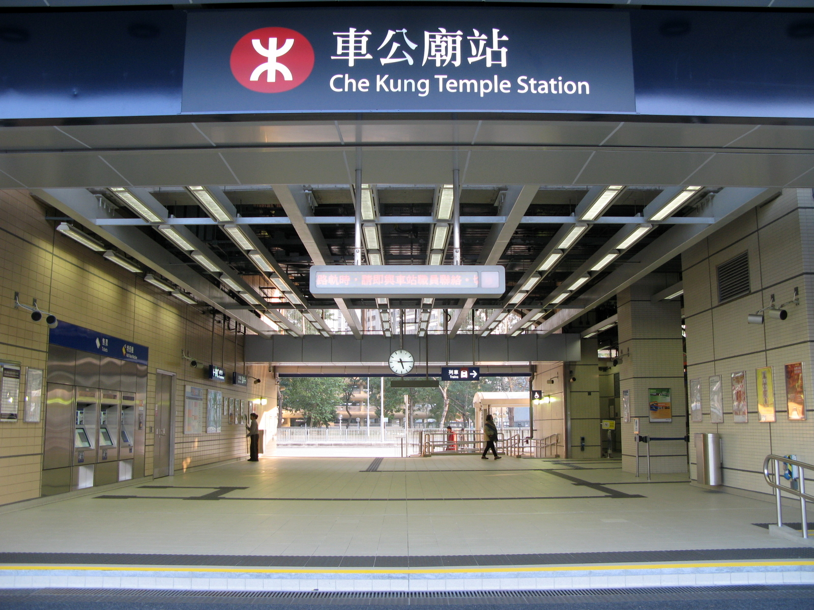 HK MTR Che Kung Temple Station Exit